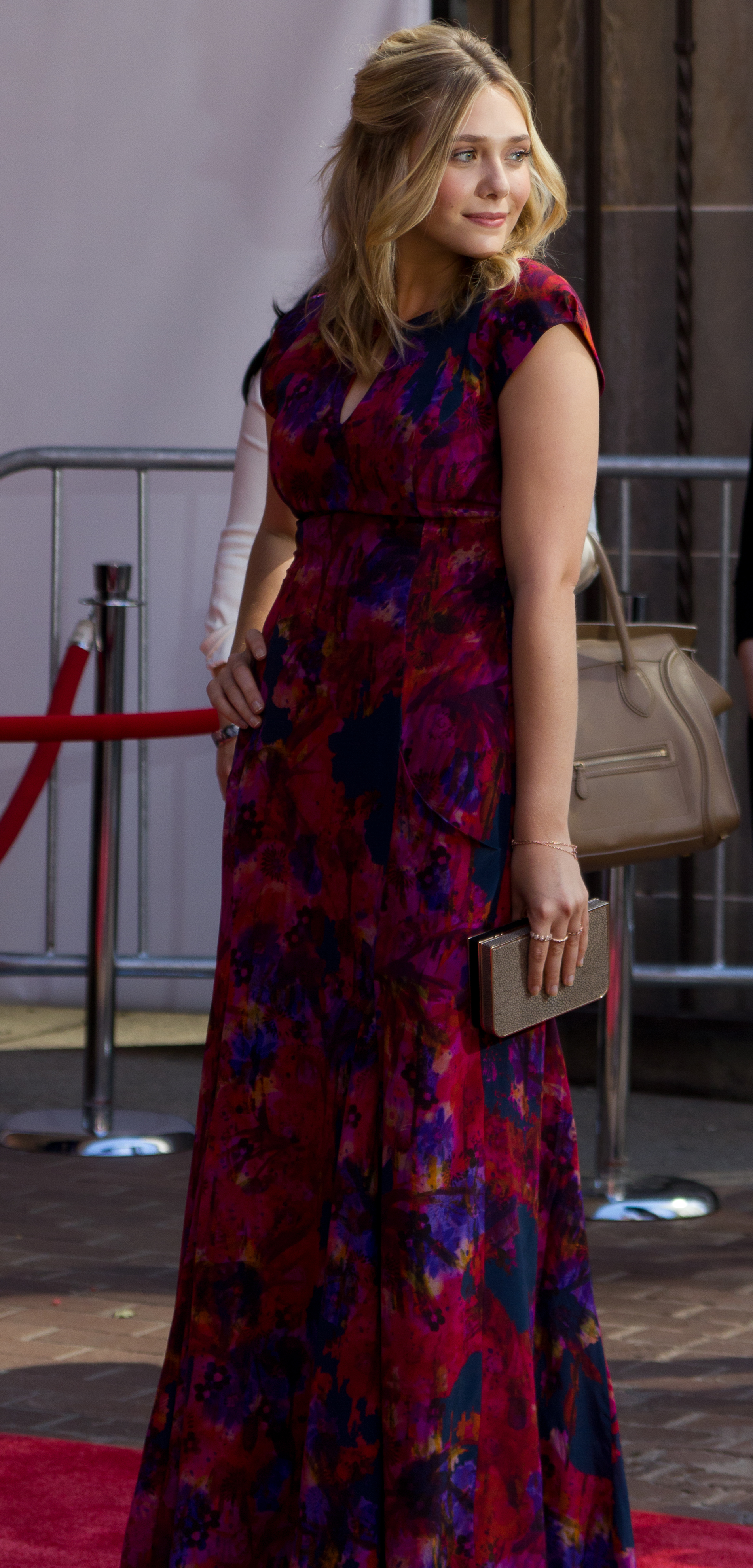 Elizabeth Olsen arriving at the "Martha Marcy May Marlene" premiere.